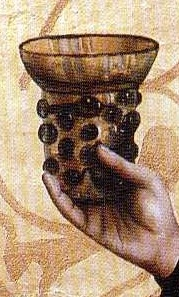 Noppenbecher/Nuppenbecher on the painting Sabobai and Benaiah by Konrad Witz.